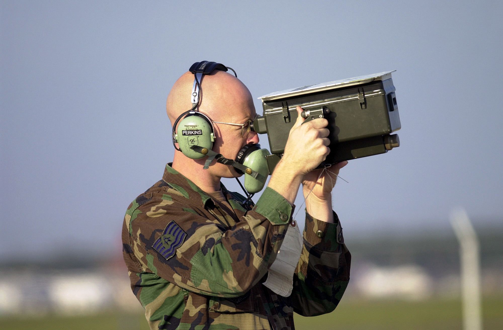 Technical Sergeant (TSGT) Al Perkins, USAF, avionics technician, 192nd Fighter Wing, Virginia Air National Guard, checks an aircraft transponder with the IFF (Identification Friend or Foe) camera.